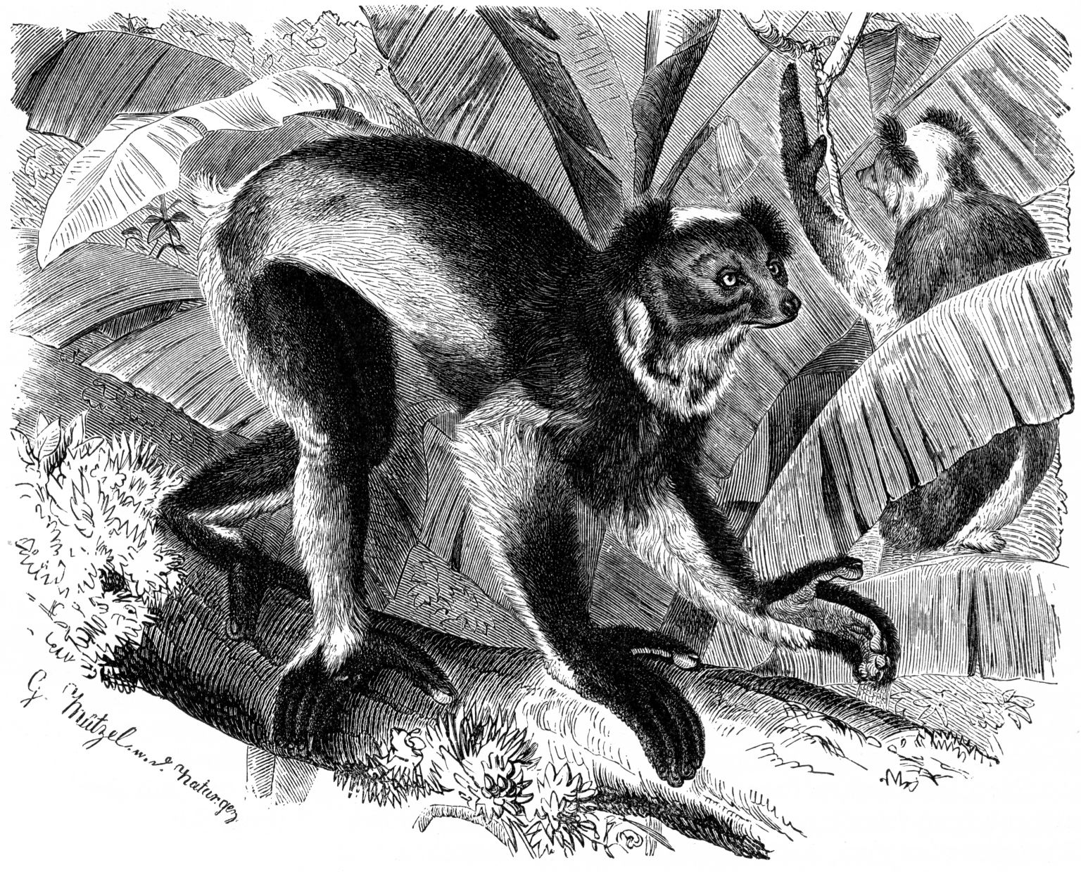 Indri (Indri indri)